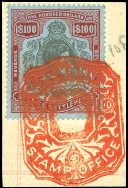 Straits Settlements 1938 $100 black and carmine on blue, tied to piece by complete Penang Stamp Office red cancel Barefoot 59.